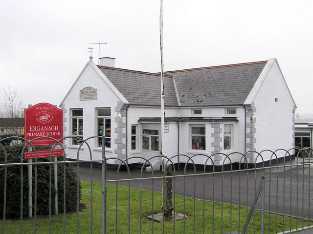 Erganagh Primary School. It was built in 1935